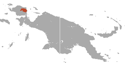 Reclusive Ringtail Possum (Pseudochirops coronatus) range